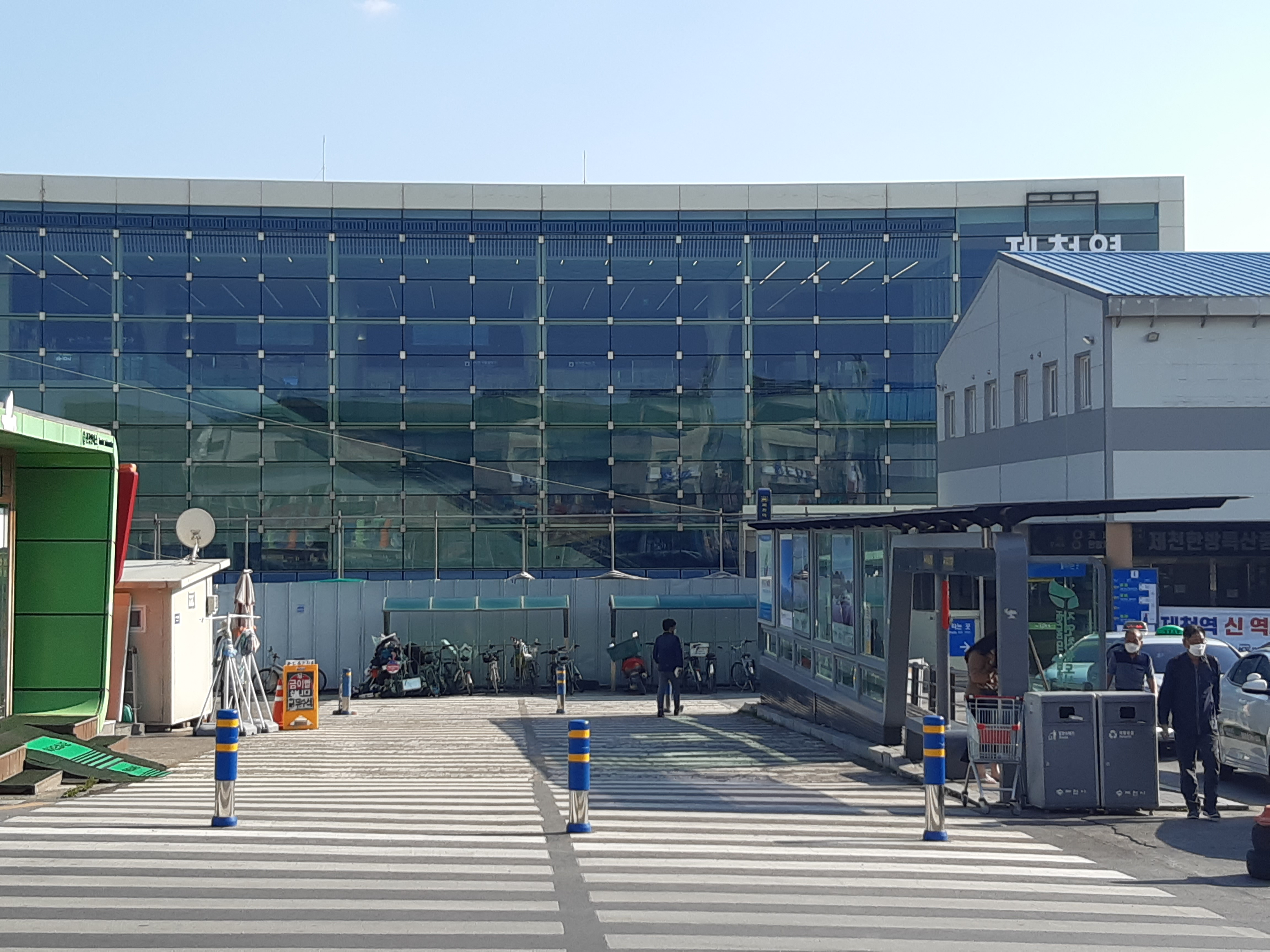 2020year Jecheon Station